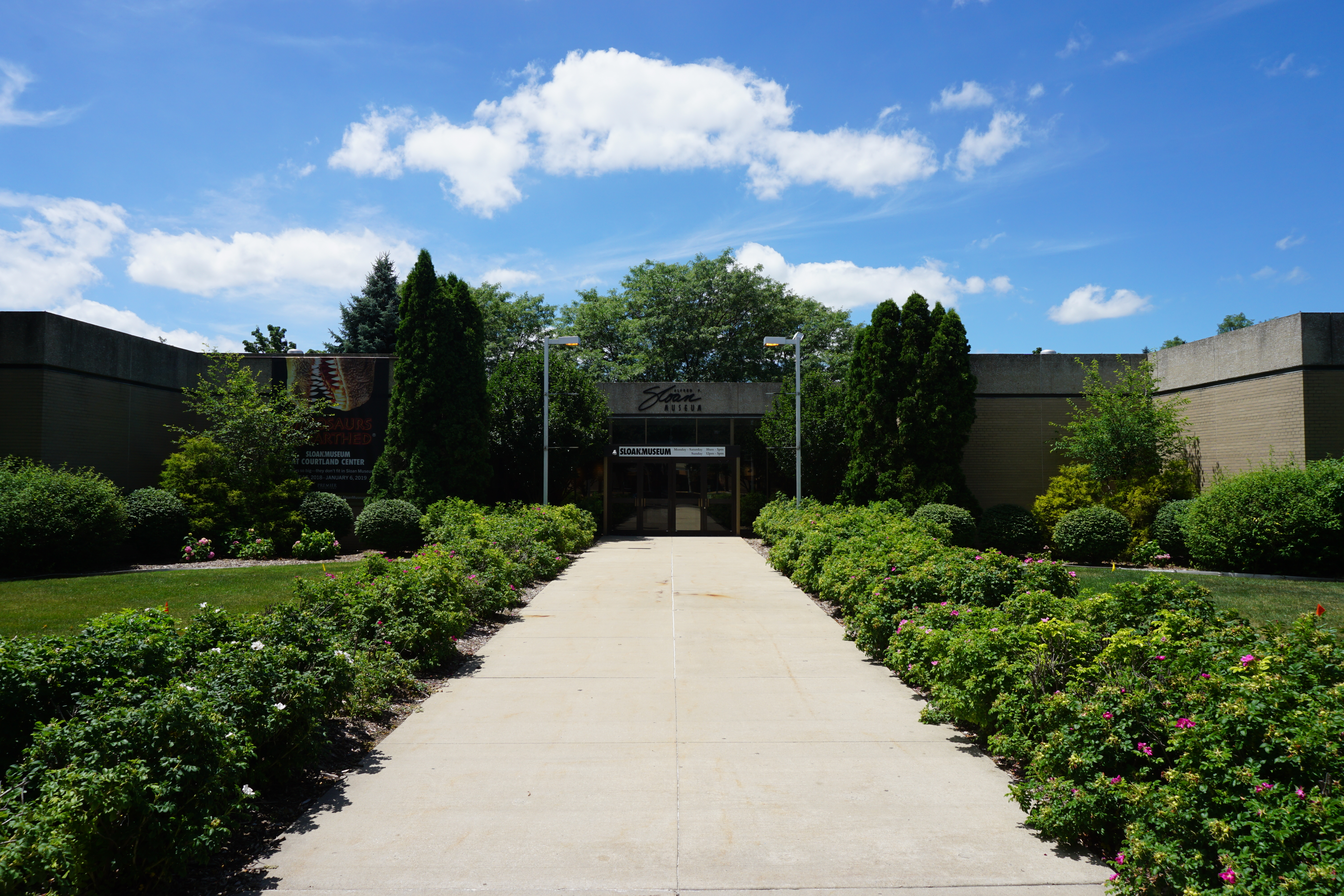 The exterior of the Sloan Museum in Flint, Michigan (United States).